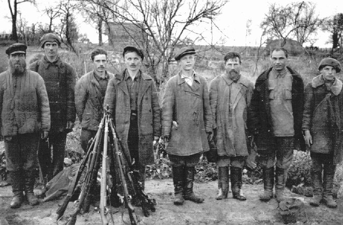 Russian volunteers "hunting" partisans in collaboration with German troops in the Kholm-Denyansk area of Novgorod Oblast in 1942.